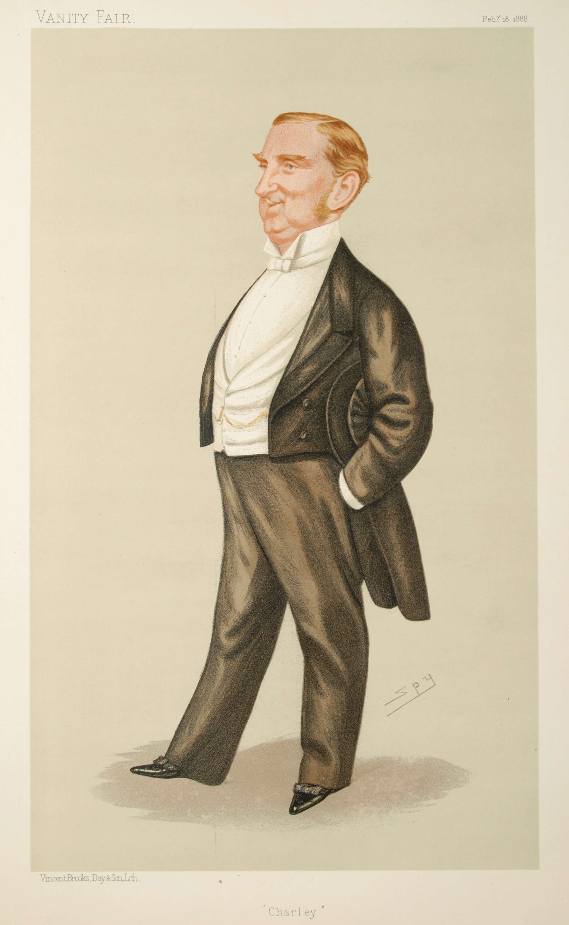 Statesmen No. 536: Caricature of Charles Hall, Q.C., M.P.. Caption read "Charley".